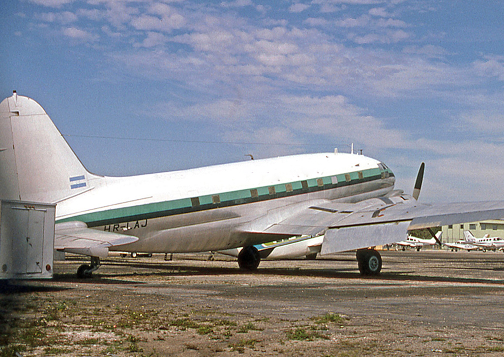 Curtiss C-46D Commando (Super 46C) HR-LAJ of LANSA (Honduras) stored at Fort Lauderdale International Airport in 1978.